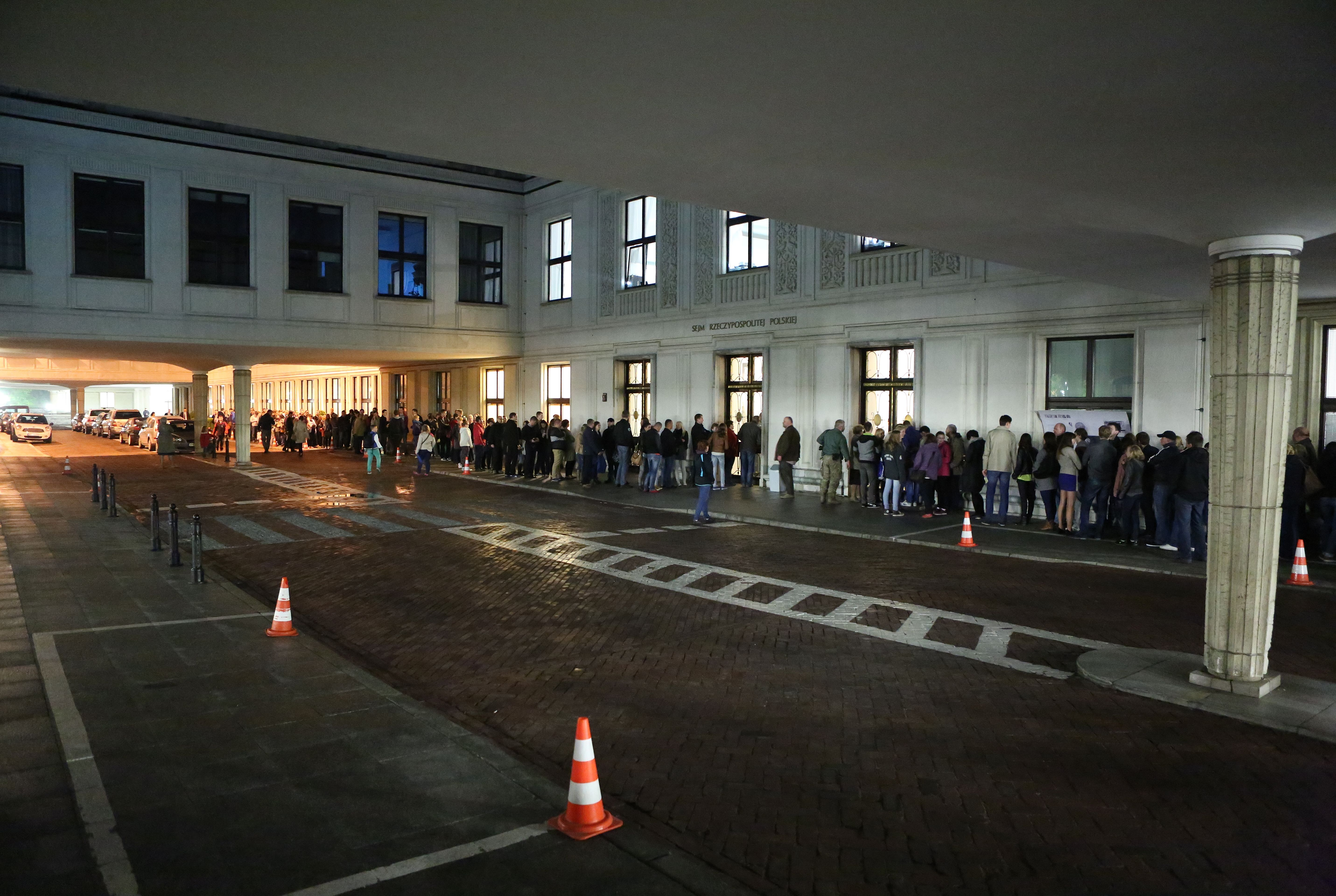 Long Night of Museums in the Polish Sejm